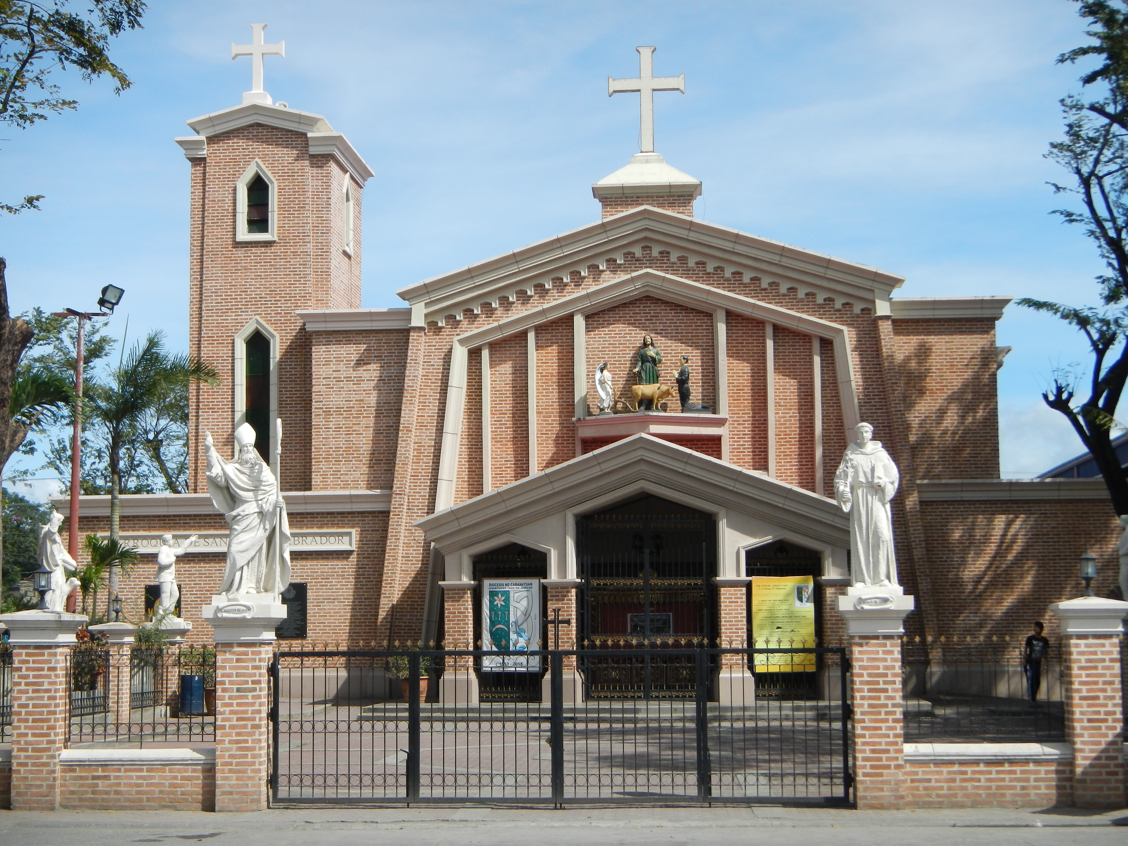 Upload Wizard photos -- (General description, 3-dimension angle by angle photography of this town, church & landmarks) -- of the - CMC Building, Talavera Plaza, Church Patio, Fountain, Landbank building, Goria Pecache Diaz building, San Isidro Labrador Parish Church of Talavera,[1] Roman Catholic Diocese of San Jose in the Philippines[2] [3] Parroquia De San Isidro De Labrador in Talavera Pamahalaang Bayan ng Talavera, the Municpal or Town Hall, Rizal Monument - Maharlika Highway,Centro, downtown, Town Proper, Centro, bus and jeep stop, Talavera, Nueva Ecija[ (s a first class municipality in the province of Nueva Ecija, Philippines 2010 census, had a population of 112,515 people politically subdivided into 53 barangays.Website [4]Land Area: 140.70 km² ZIP Code: 3114 Coordinates: 15°37'19"N 120°56'6"E).[5] [6] geographical location: Nueva Ecija, Region 3, Philippines, Asia geographical coordinates: 15° 35' 4" North, 120° 55' 10" East.[7]